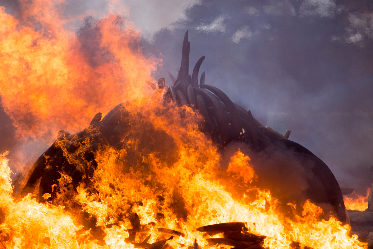 105 tons of ivory and 1 ton of rhino horn burn in Nairobi National Park on 30th April 2016. They were set ablaze by President Uhuru Kenyatta in the largest ivory burn in hisory.